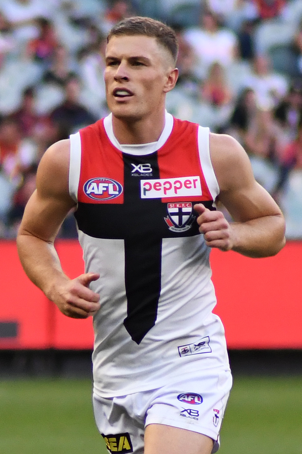 Jack Newnes of St Kilda during the 2019 AFL round 5 match between Melbourne and St Kilda at the Melbourne Cricket Ground on Saturday, 20 April 2019 in Melbourne, Victoria.